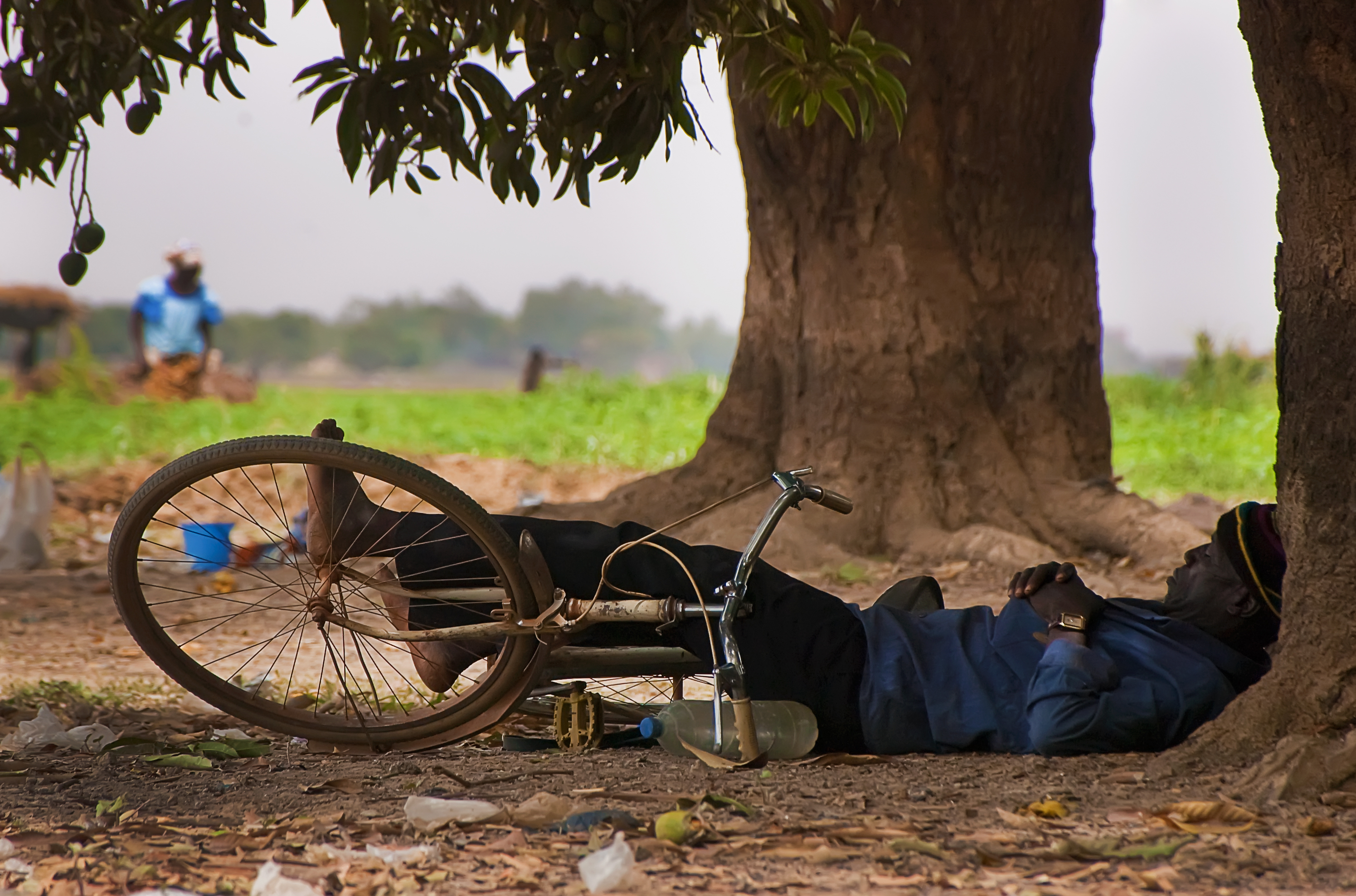 Man sleeping siesta under mango trees in irrigated zone of Kolog'Naaba (Ouagadougou, Burkina Faso).